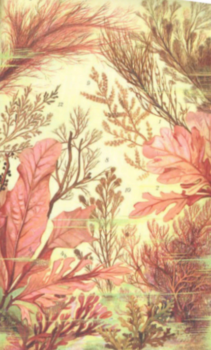 Algues rouges, Floridees ou Rhodophycees 1- Cystoclonium purpurascens, 2- Delesseria sinuosa, 3- Delesseria alata, 4- Delesseria sanguinea, 5- Piocamium coccineum, 6- Polysiphonia urceolata, 7- Polysiphonia nigrescens, 8- Polysiphonia elongata, 9- Brongniartella hyssoides, 10- Rhodomela subfusca, 11- Laurencia pinnatifida, 12- Chondria dasyphylla Subject: Red algae, Polysiphonia, Rhodomelaceae, Laurencia, Chondria Tag: Aquatic Botany